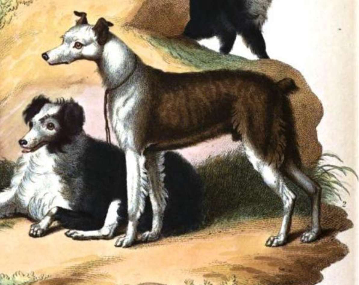 Painting of a cur dog by Sydenham Edwards in Cynographia Britannica, 1800.